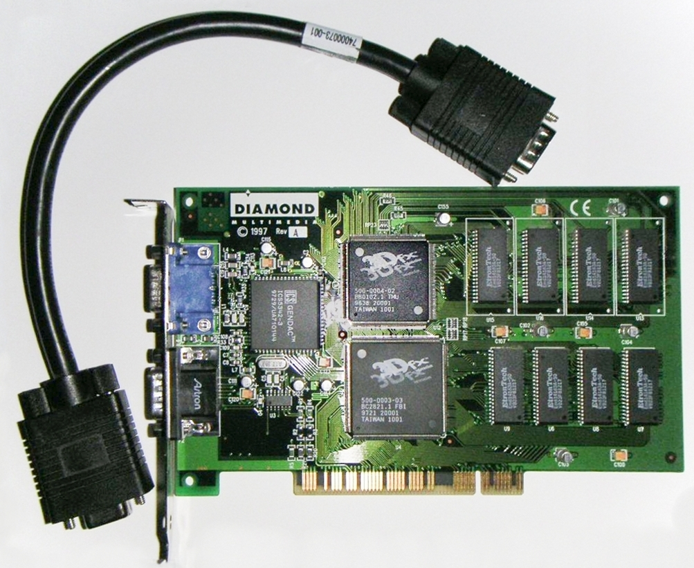 A Diamond Monster 3D Voodoo Graphics add-in card with pass-through connector.